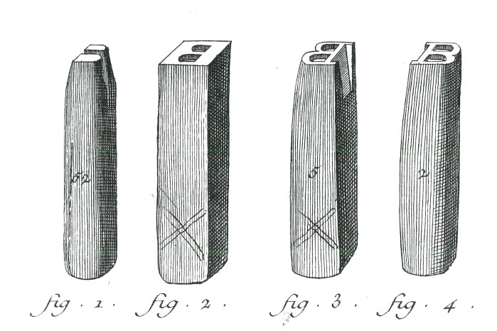 Counter-punch and punch